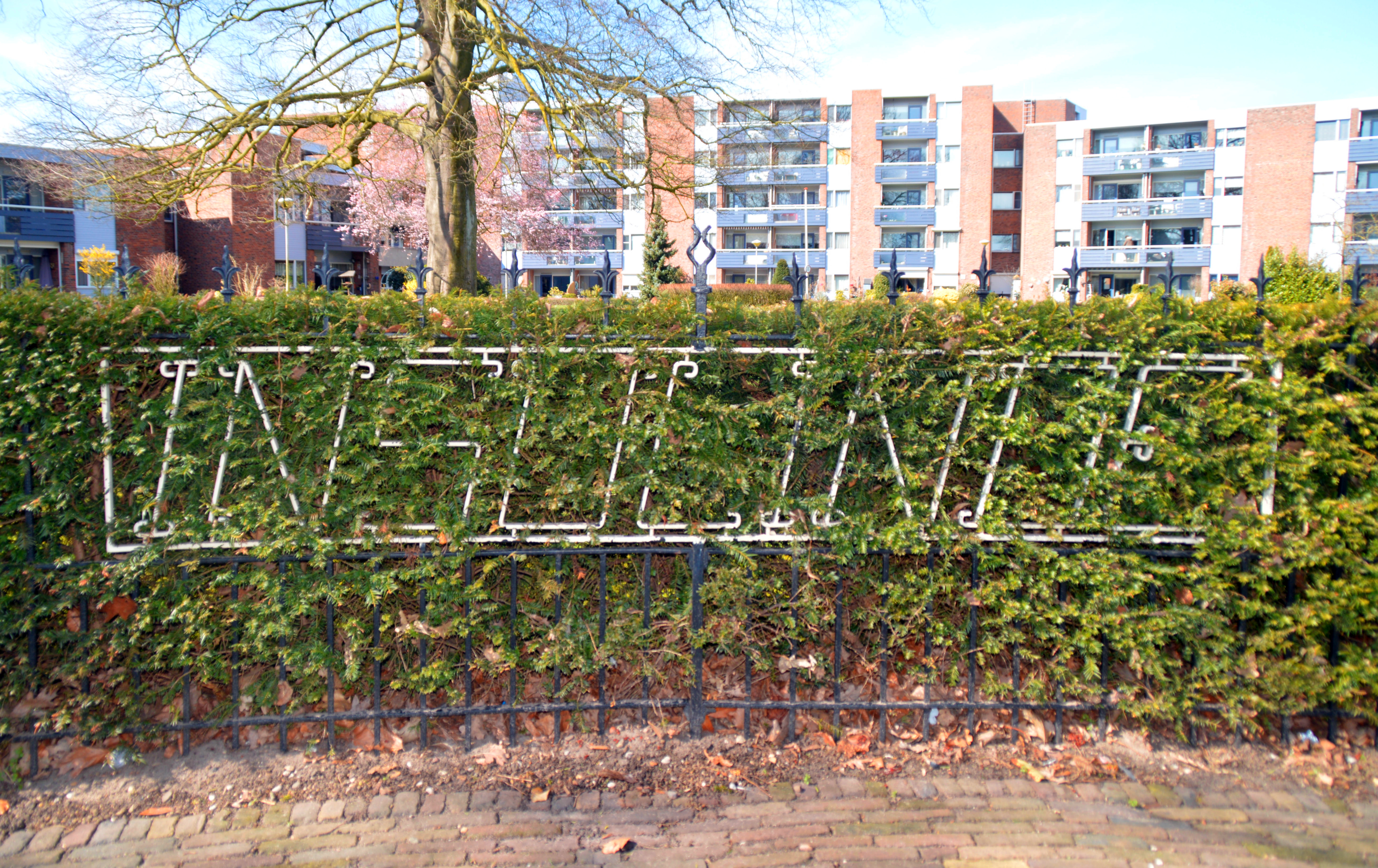 Huize Insulinde Military home Hees Nijmegen